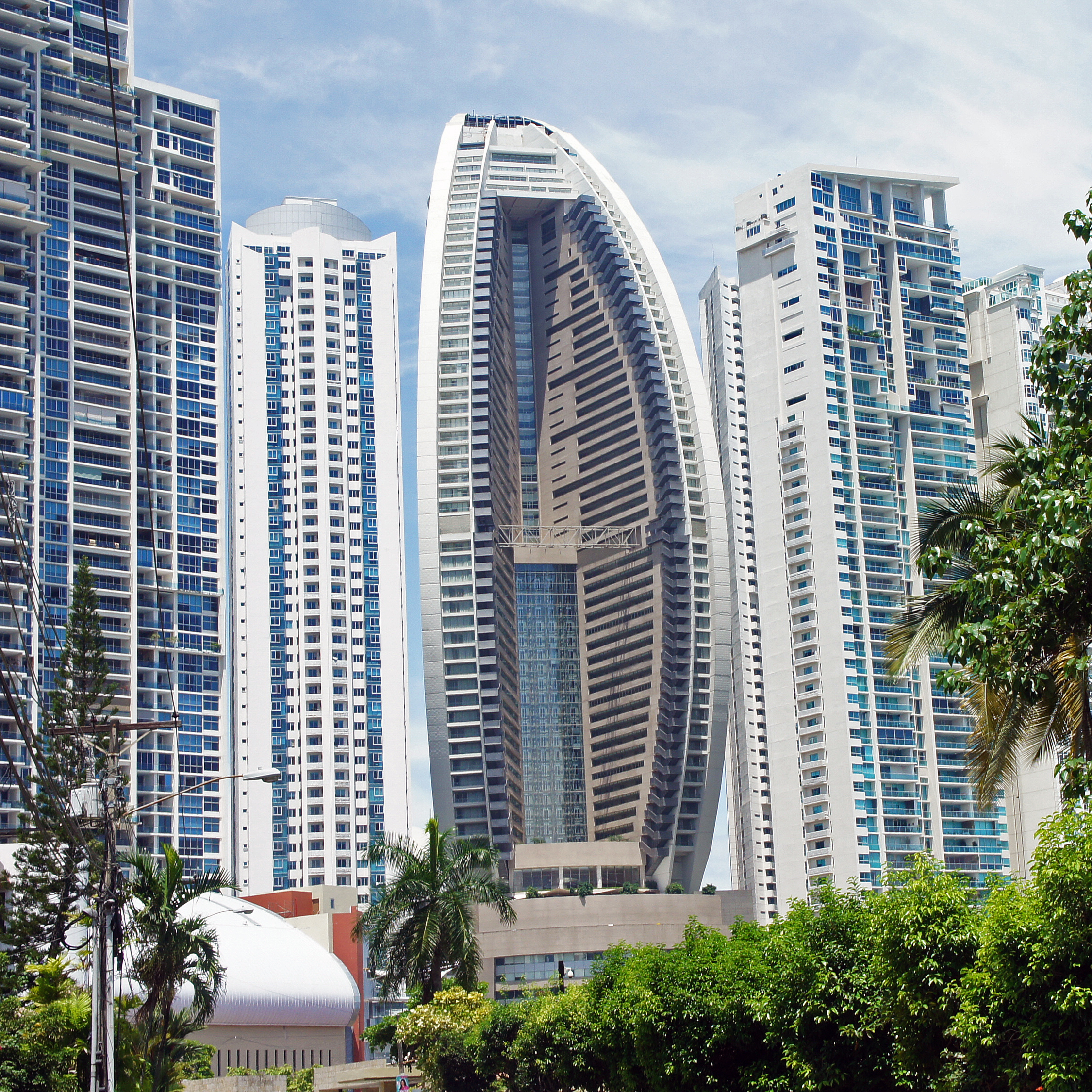 Trump Ocean Club International Hotel and Tower. Panama City, Panama.